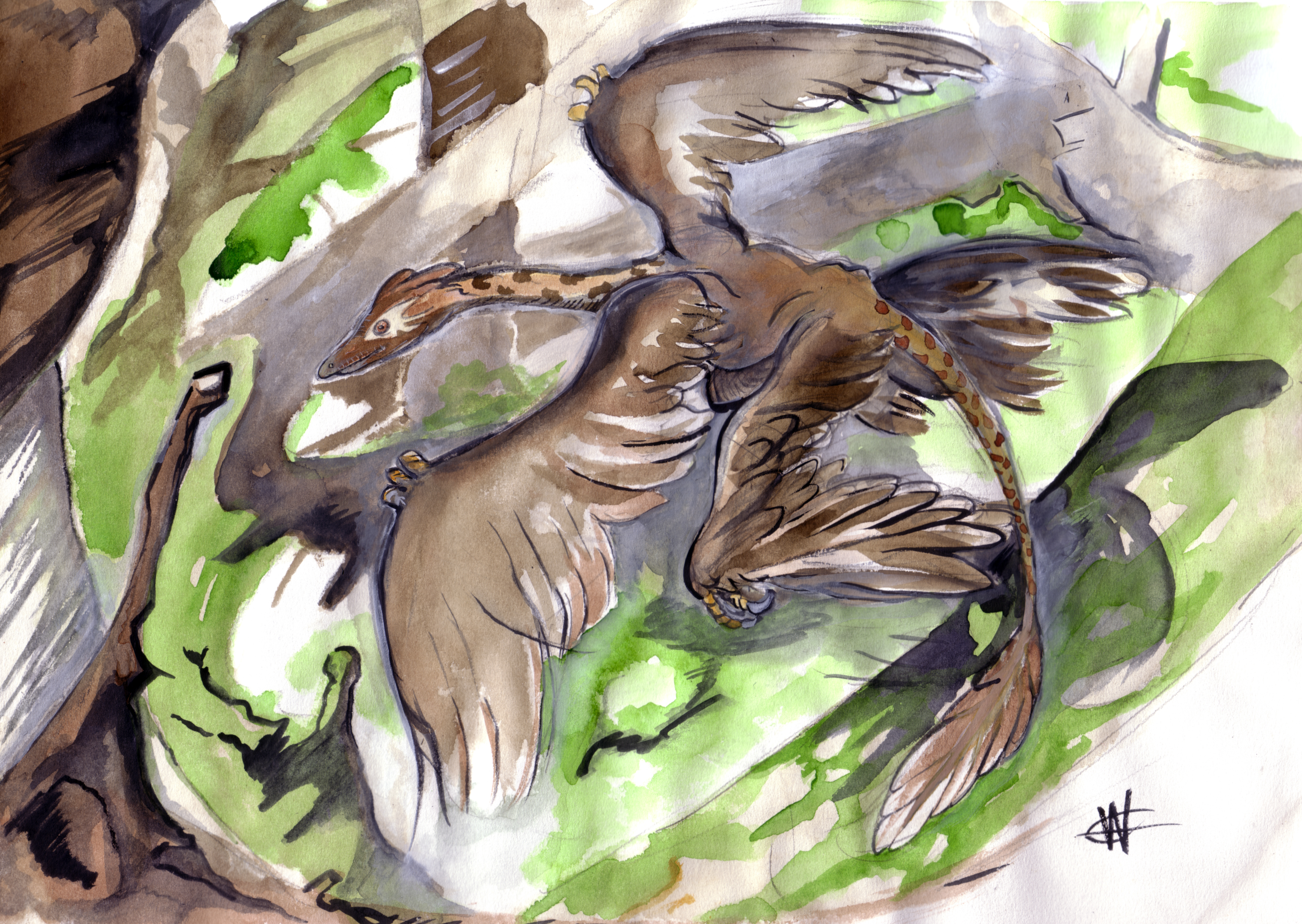 watercolour of microraptor gui